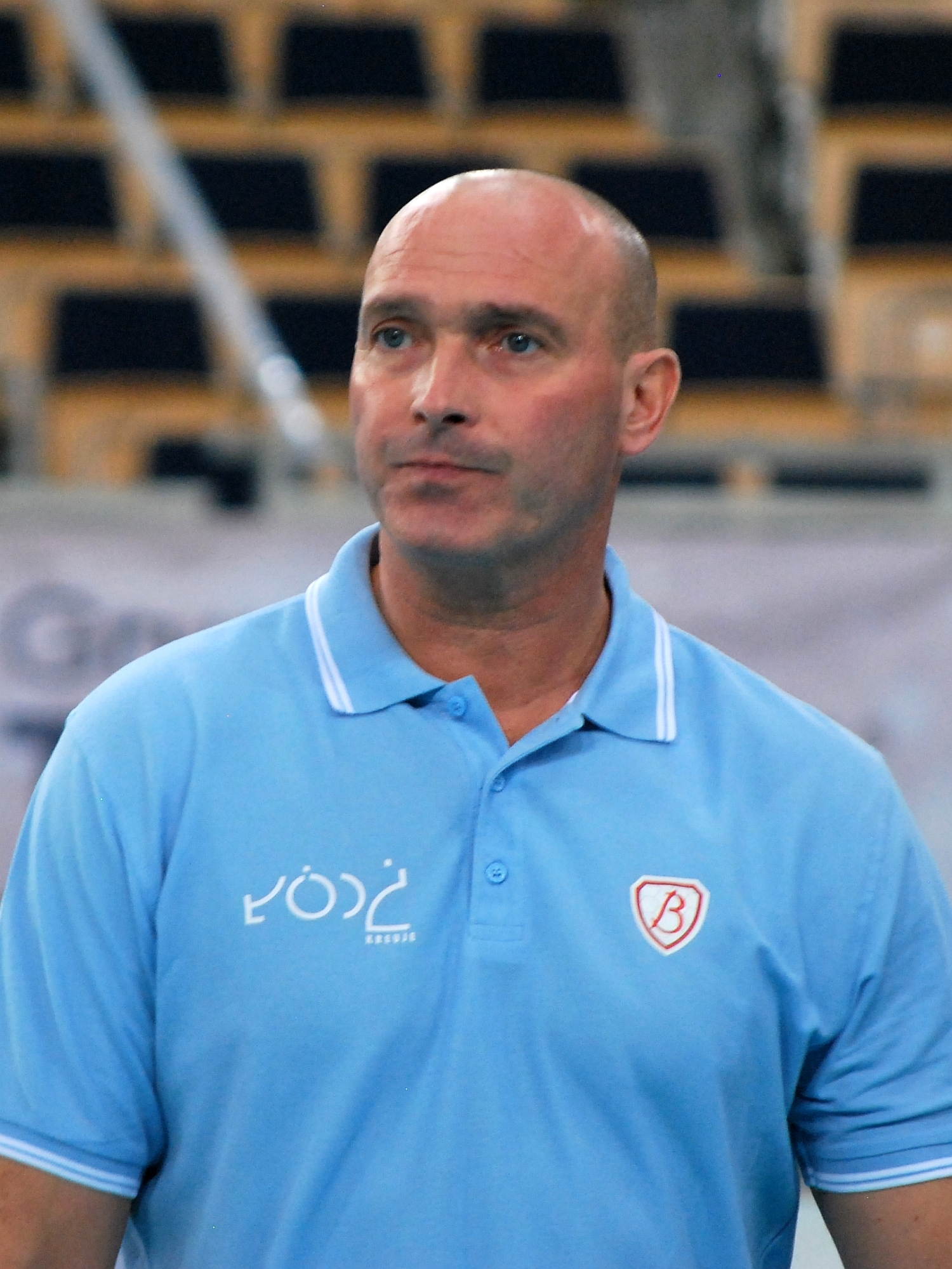 Tomasz Nagórka, former hurdler of Poland